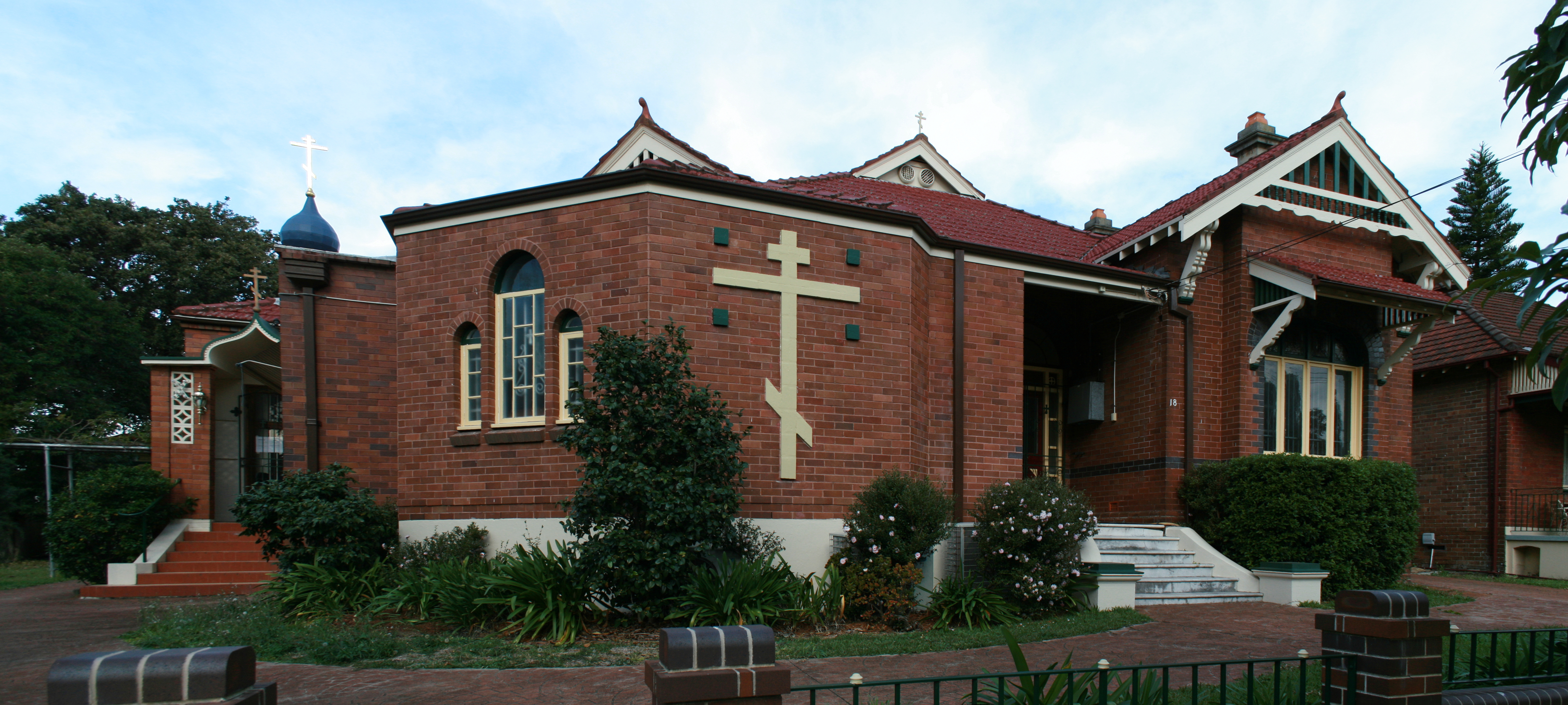 Church of All Russian Saints, 18 Chelmsford Avenue, Croydon, NSW 2132, Australia.